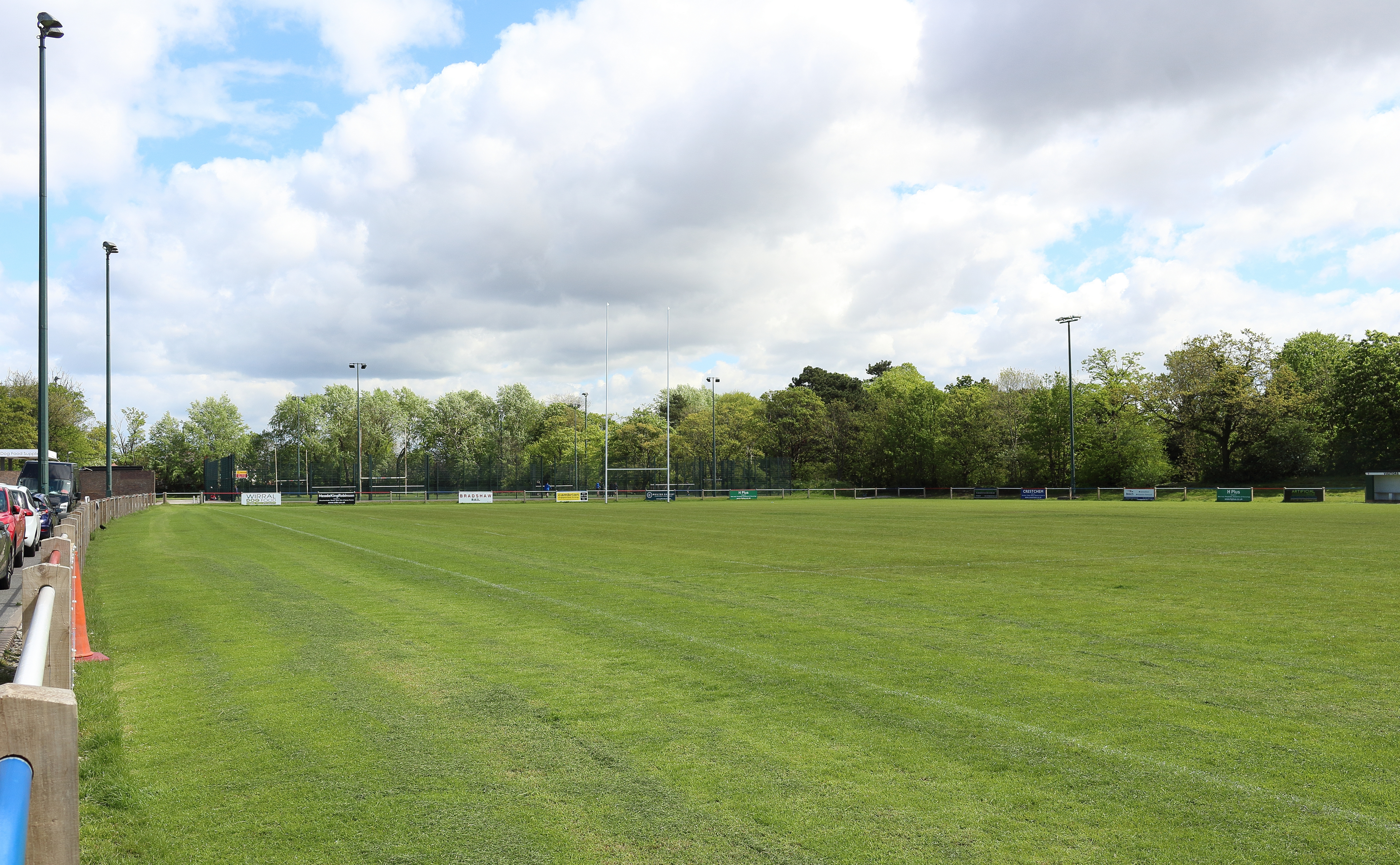 View eastwards across the two pitches.